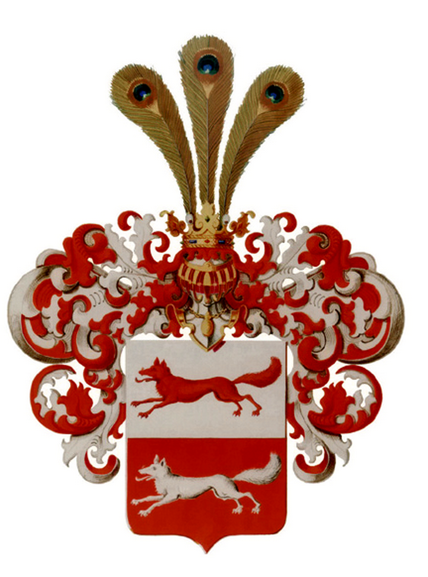 Coat of Arms of a russian branch of Kleist family